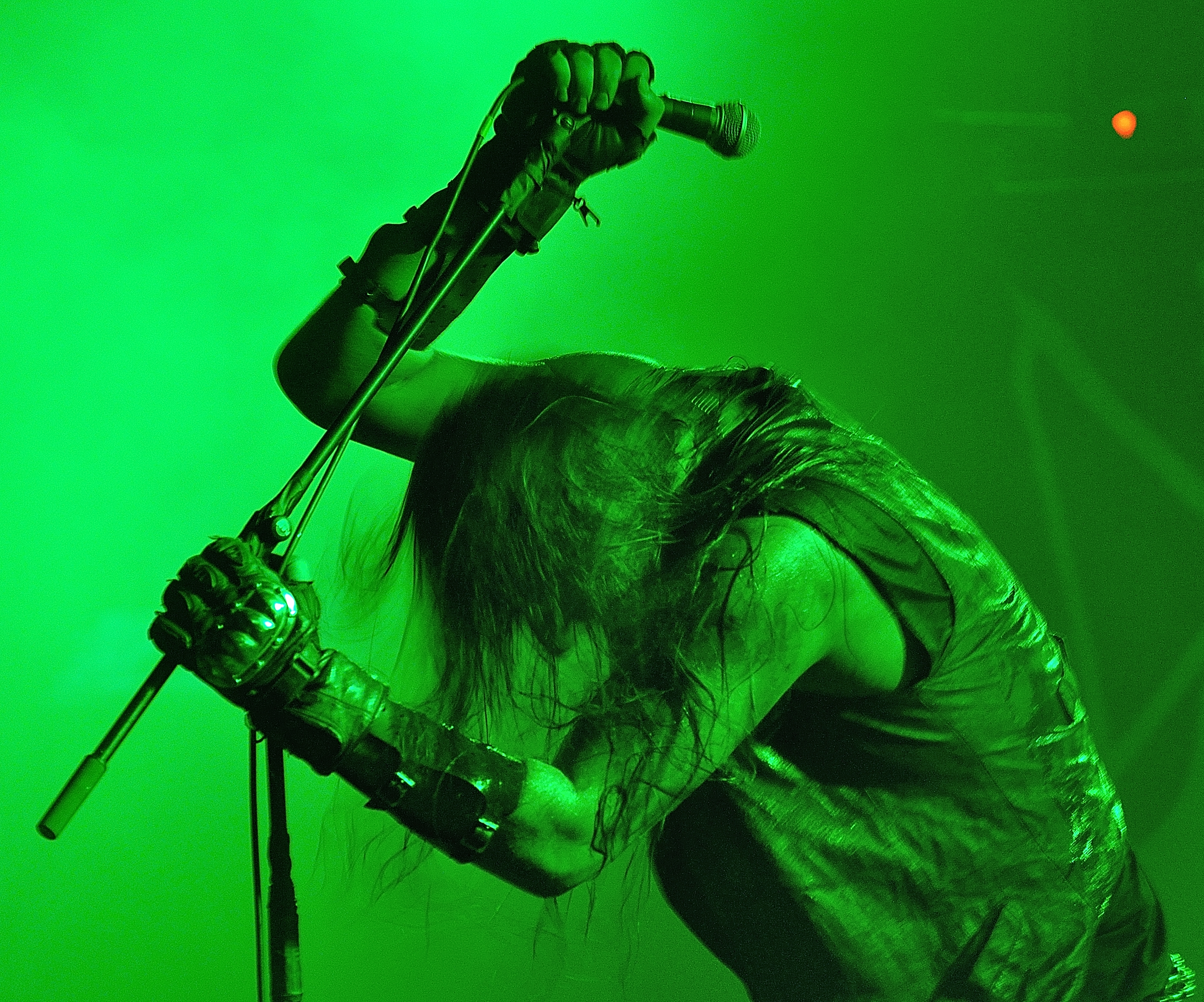 Marduk at Hatefest 2015 in Berlin.